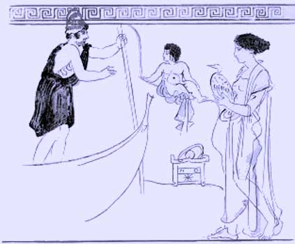 Line drawing based on Greek lekythos, depicting Charon receiving the soul of a child. A woman, possibly the mother, carries a goose. In the background is a box presumed to contain grave offerings. Original lekythos described by Arthur Fairbanks, Athenian Lekythoi with Outline Drawing in Matt Color on a White Ground (Macmillan, 1914), p. 85 online.